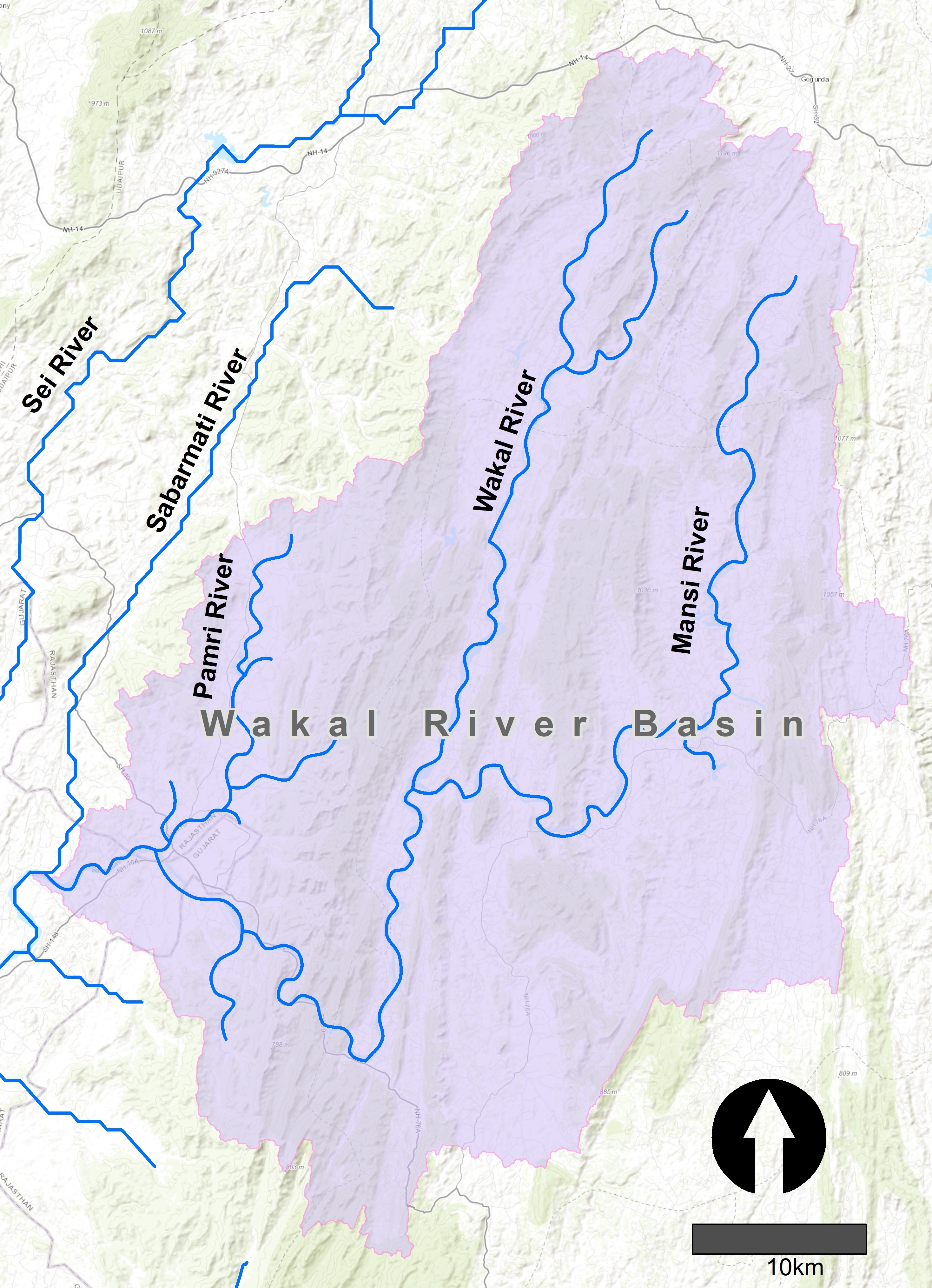 98% of the Wakal River basin lies in Rajasthan state, the rest in Gujarat state.